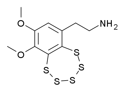 Varacin